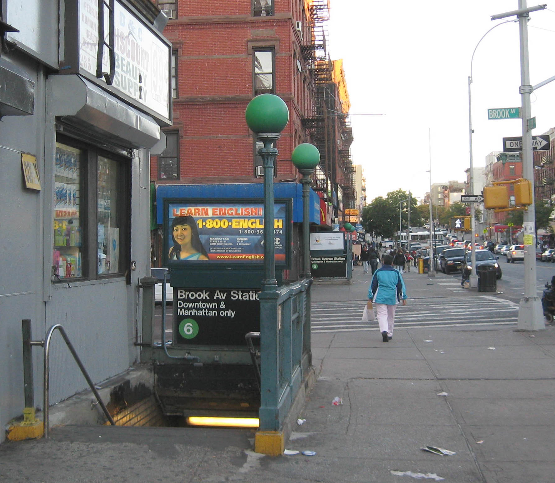 Looking east in late afternoon at street stair of Brook Avenue (IRT Pelham Line). Mott Haven ZIP 10454.